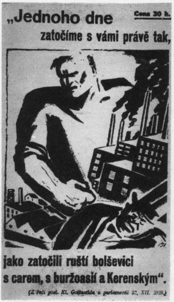 Leaflet Communist Party of Czechoslovakia of 1929